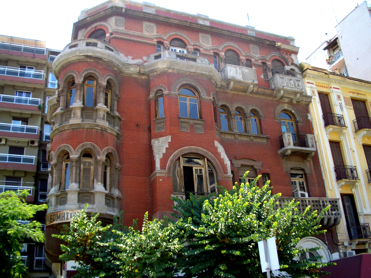 Derelict building at the corner of the Streets Agias Sofias and Ermou, Thessaloniki